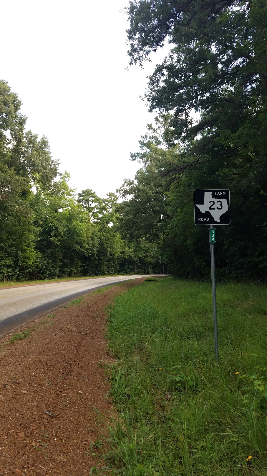 Farm to Market Road 23 in Cherokee County, Texas.